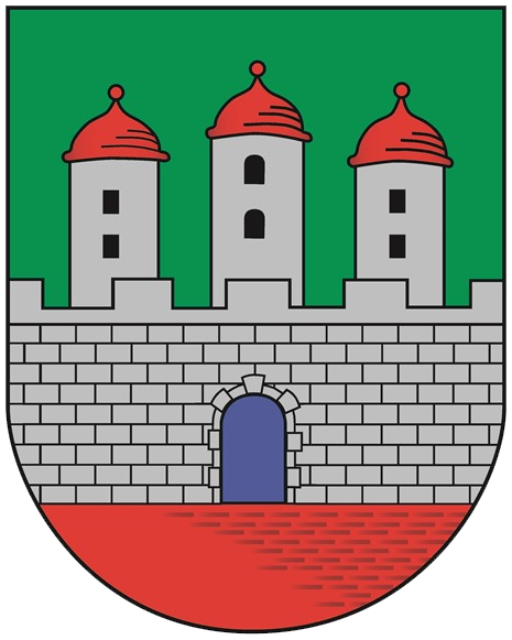 Coat of arms of the municipality Hitzacker (Elbe) in the district Lüchow-Dannenberg, in Lower Saxony, Germany.